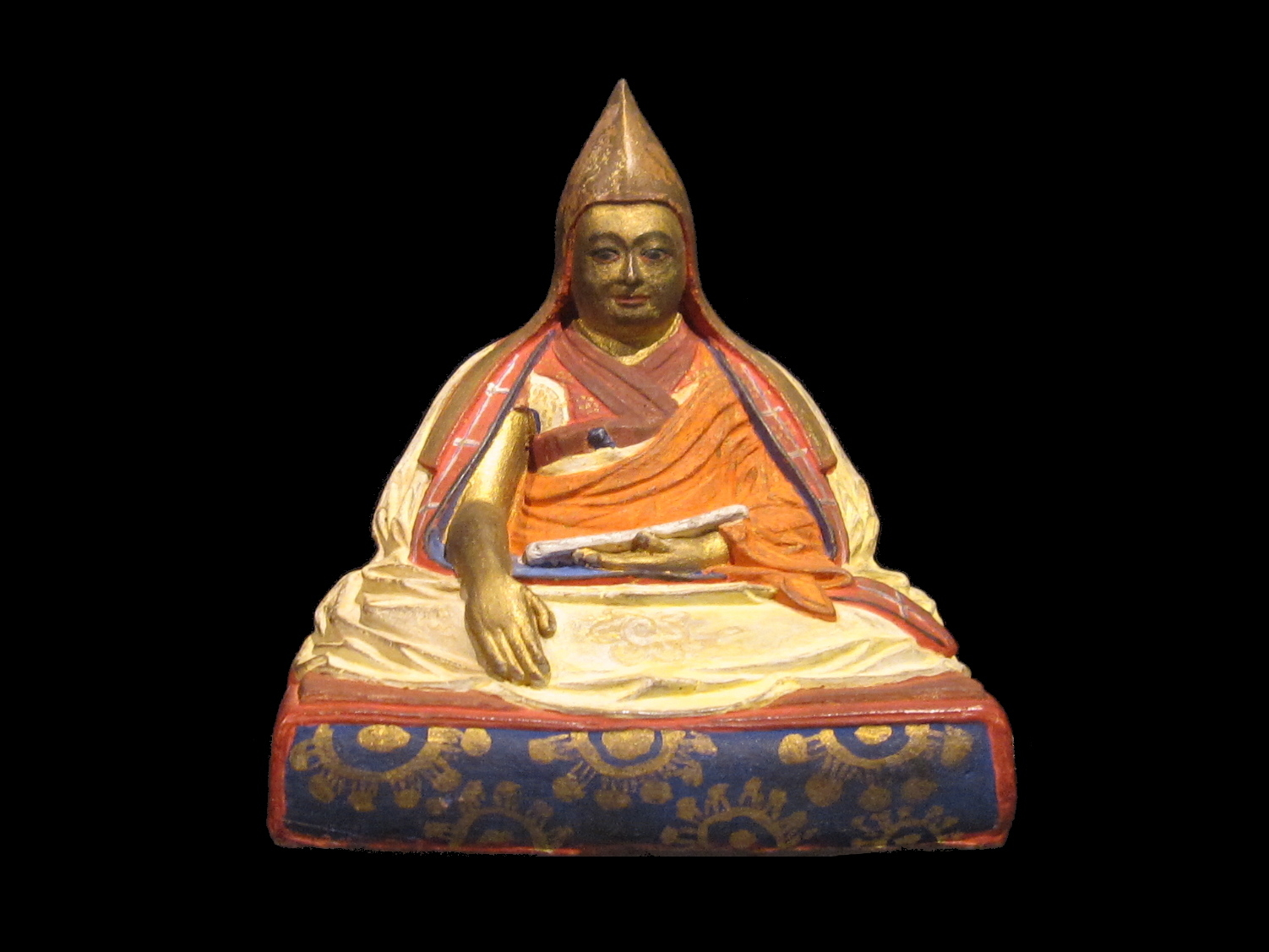 Statuette of the Fifth Dalai Lama. Mongolia, 19th century CE.